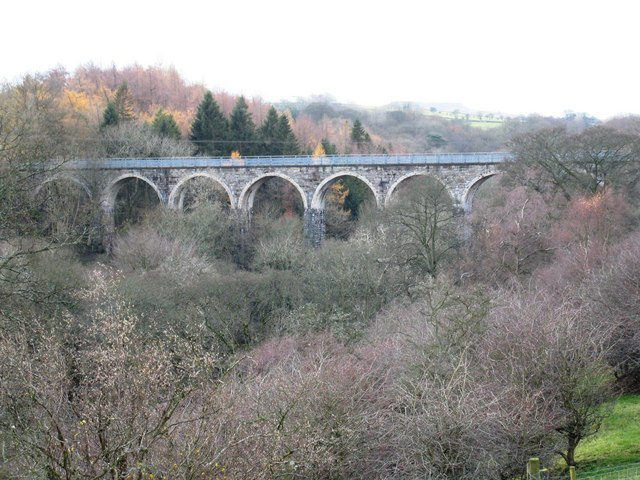 Balder Railway Viaduct. This photograph of the (now disused) railway viaduct was taken from the 'Viewing Seat' located near doe Park at {NY 997 203}. See here: 1593225.